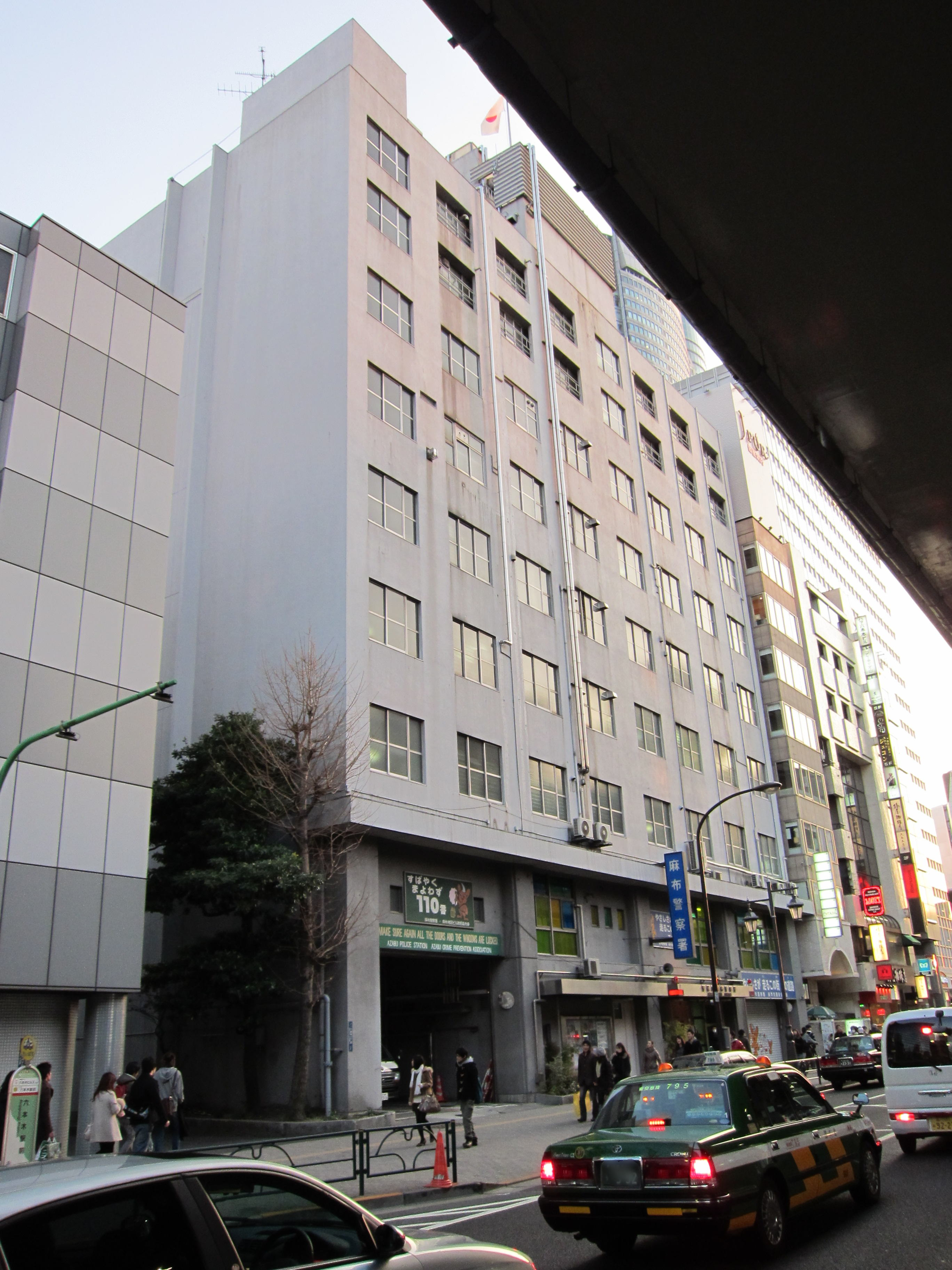 Azabu Police Station